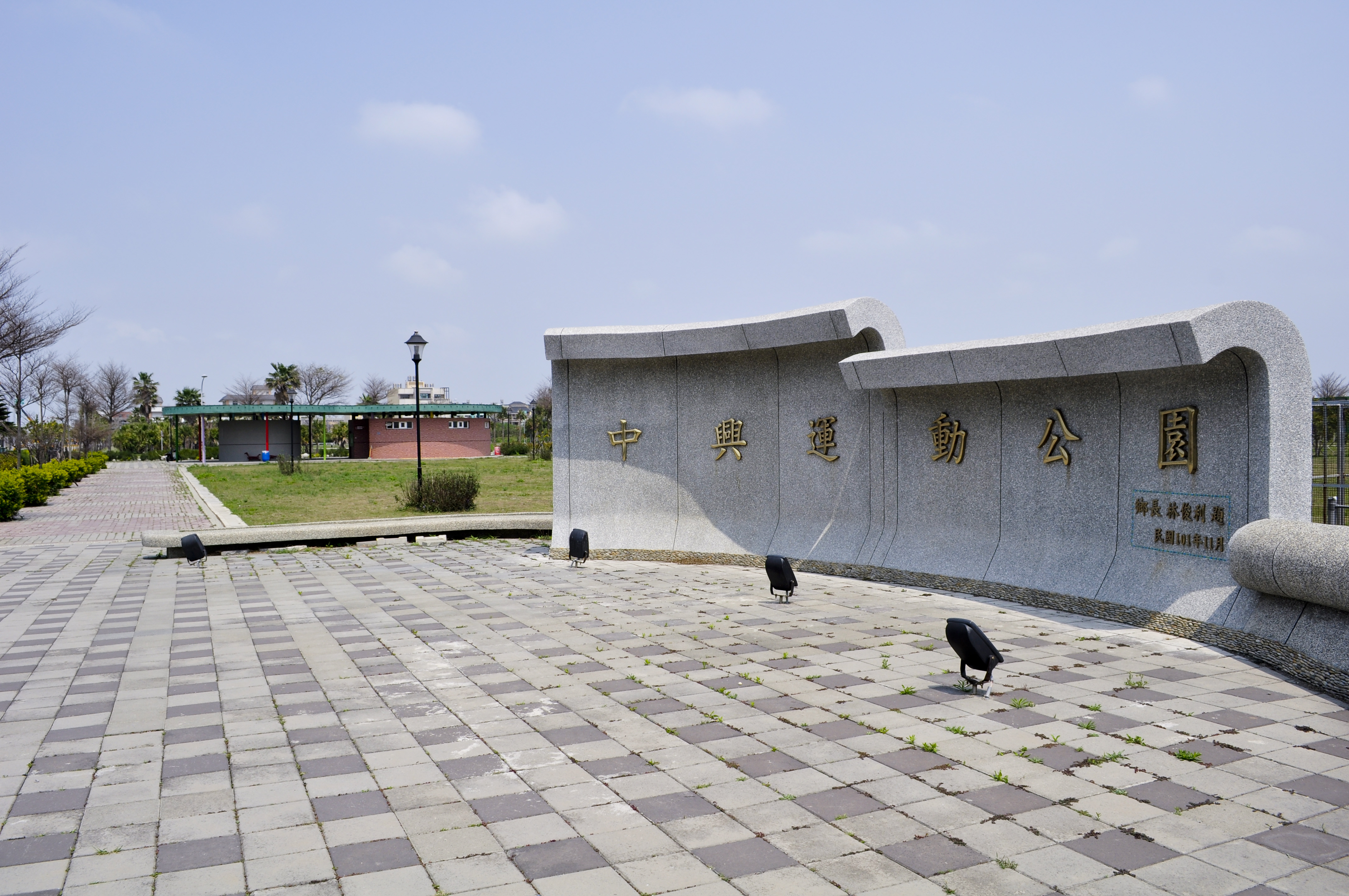 Shengang